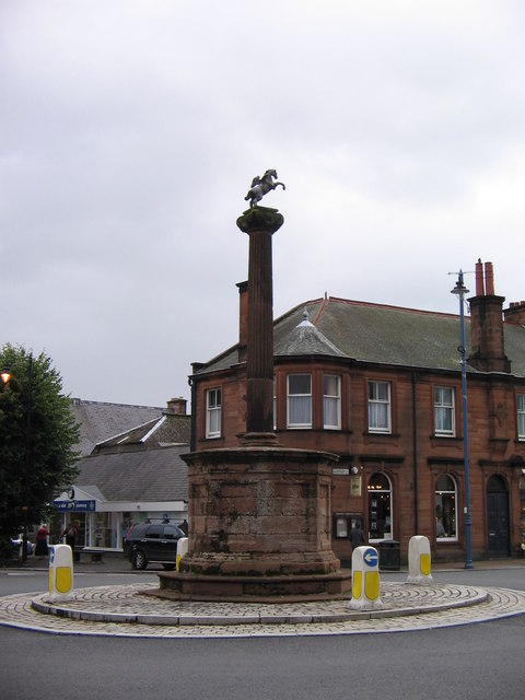 Thornhill Mercat cross 1